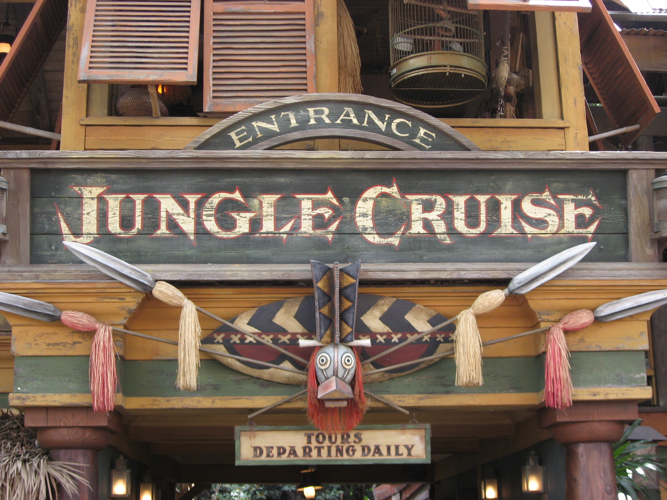 Jungle Cruise sign at Disneyland.